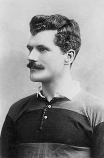 Arthur Monkey Gould, Wales and Newport rugby union player, in Newport strip